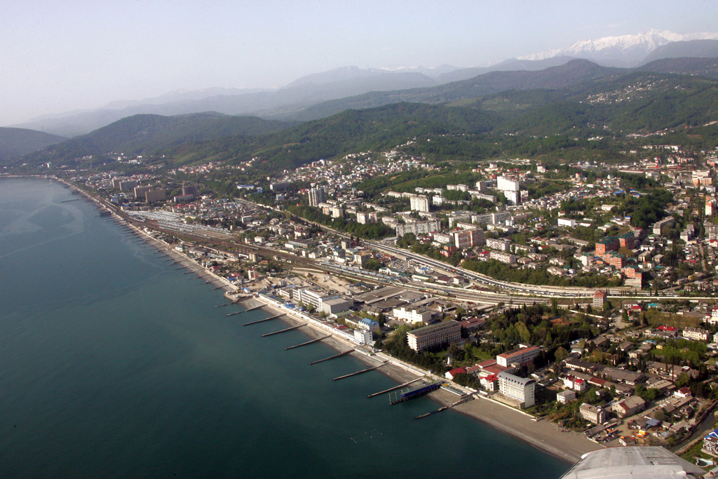 “Panorama of Adler (part of Sochi)”. Sochi, a resort on the Black Sea and host of the 2014 Winter Olympics.